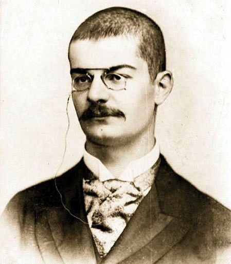 Alexander I of Serbia.